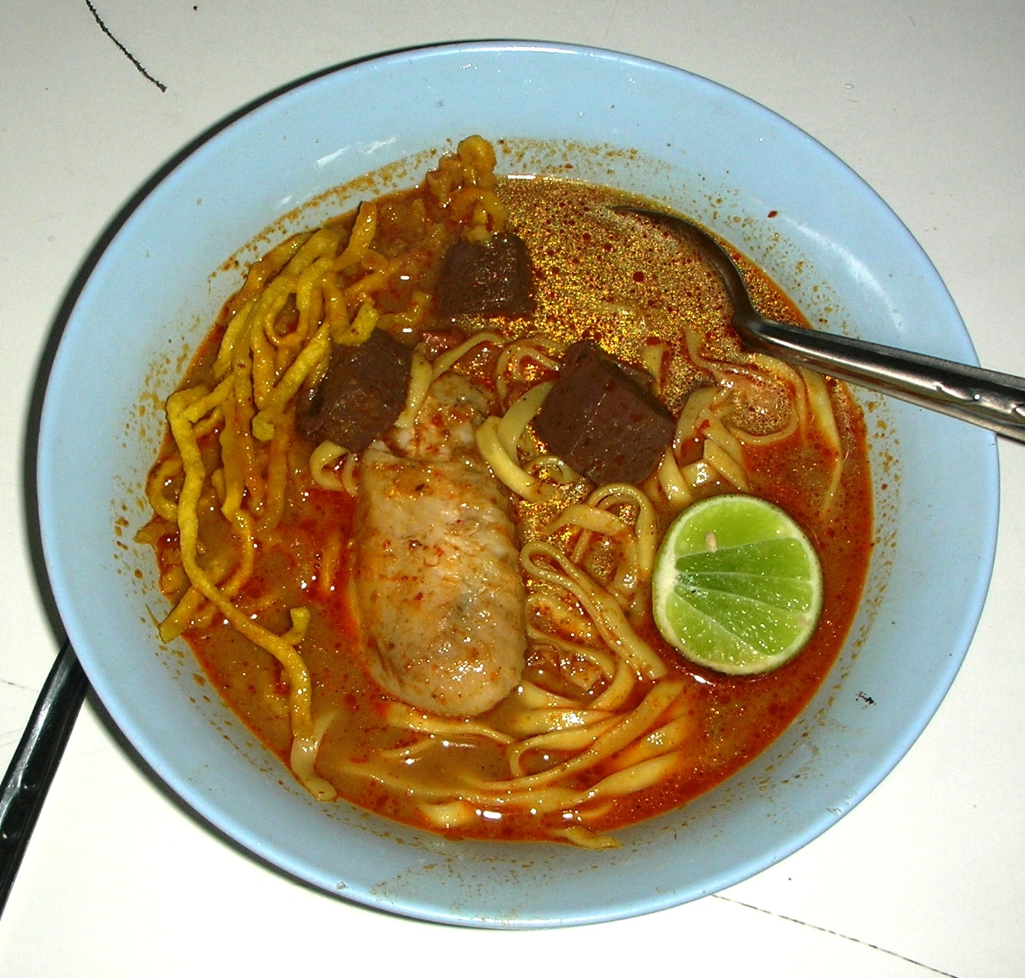 Standard Khao soi served at the Chiang Rai Witthayakhom School cafeteria, Chiang Rai, North Thailand